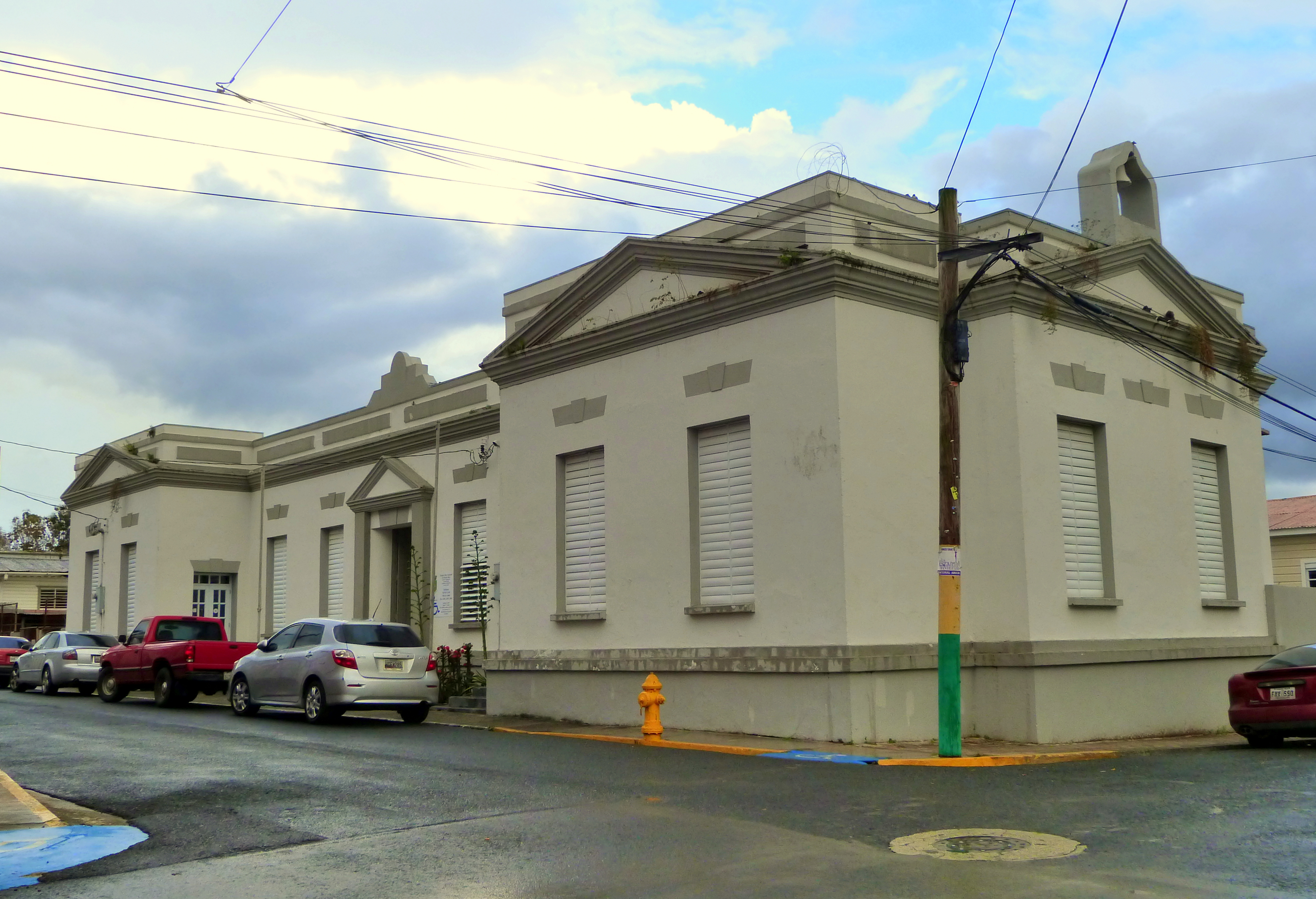 The historic James Fenimore Cooper Graded School, located at Calle San Isidro #20 in Sabana Grande, Puerto Rico, is listed on the U.S. National Register of Historic Places.